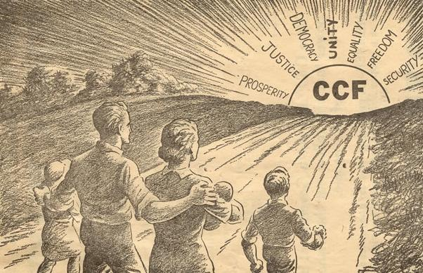 "Towards the Dawn!" Election visual for Saskatchewan's Cooperative Commonwealth Federation.